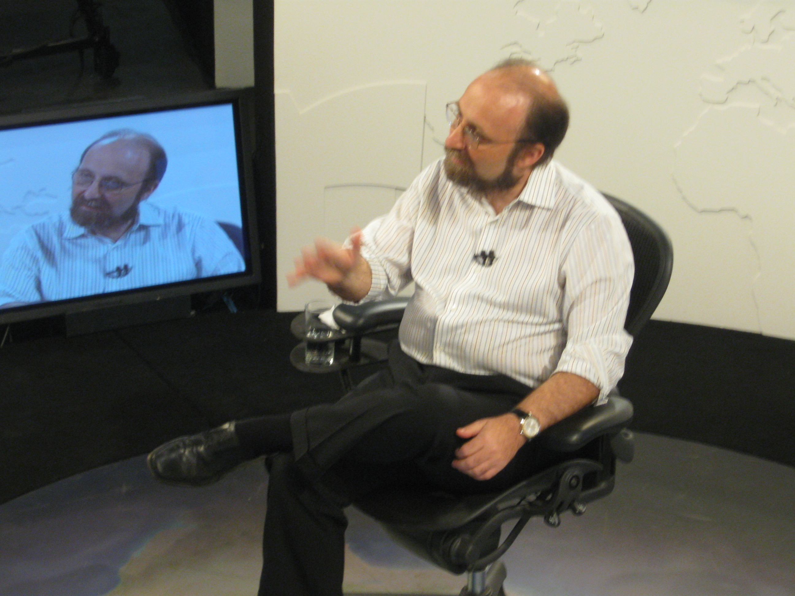 Miguel Angelo Laporta Nicolelis is a Brazilian physician and scientist. Photo taken during an interview for TV Cultura's Roda Viva program.